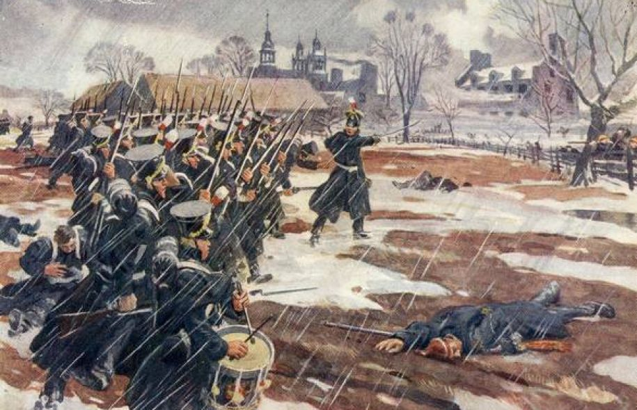 The Battle of Saint-Denis. Online at Canadian Military Heritage.